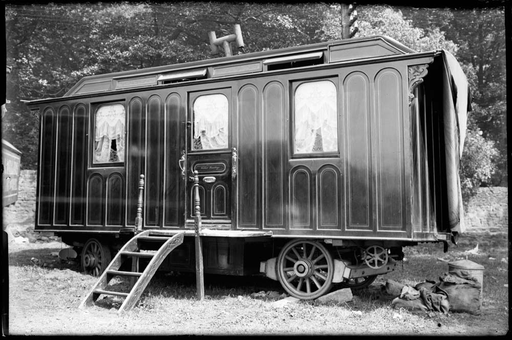 A large caravan with striking dark carved panels. The name on the door of this Showman's caravan is Walker Hoadley. Accession: 944/2980 The images have been selected from the Arthur J Fenwick collection of circus material. Arthur James Fenwick (1878-1957) was a director of Fenwick's Department Store. In his personal life he was extremely interested in fairs and circuses, collecting historical material about them and building personal relationships with showmen who visited Newcastle. He was made a life member of the Showmen's Guild in 1944. (Copyright) We're happy for you to share this digital image within the spirit of The Commons. Please cite 'Tyne & Wear Archives & Museums' when reusing. Certain restrictions on high quality reproductions and commercial use of the original physical version apply though; if you're unsure please . To purchase a hi-res copy please quoting the title and reference number.